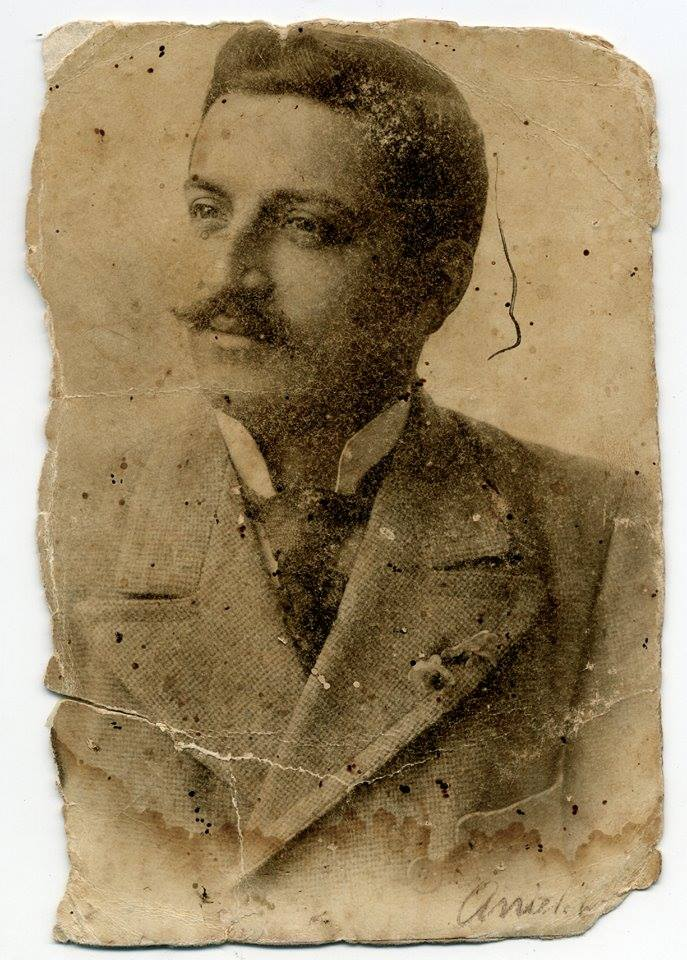 photos of the poet Aniello Califano